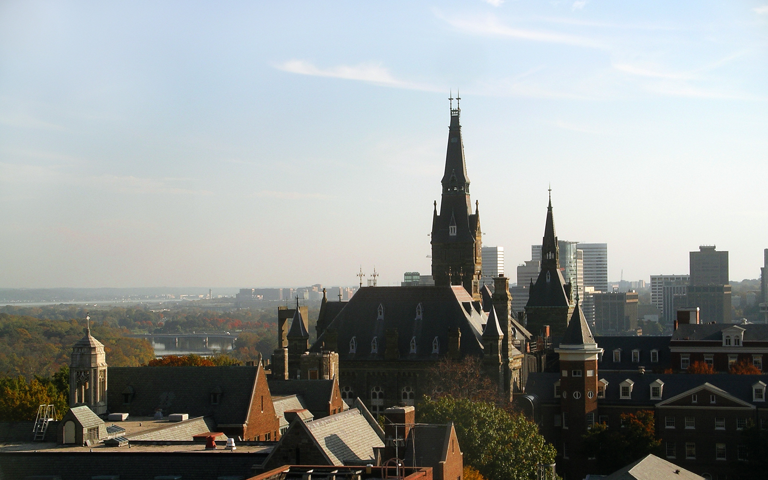 The rooftops of Georgetown University and Rosslyn and Washington, DC beyond it. Taken from the roof of the Reiss Building.